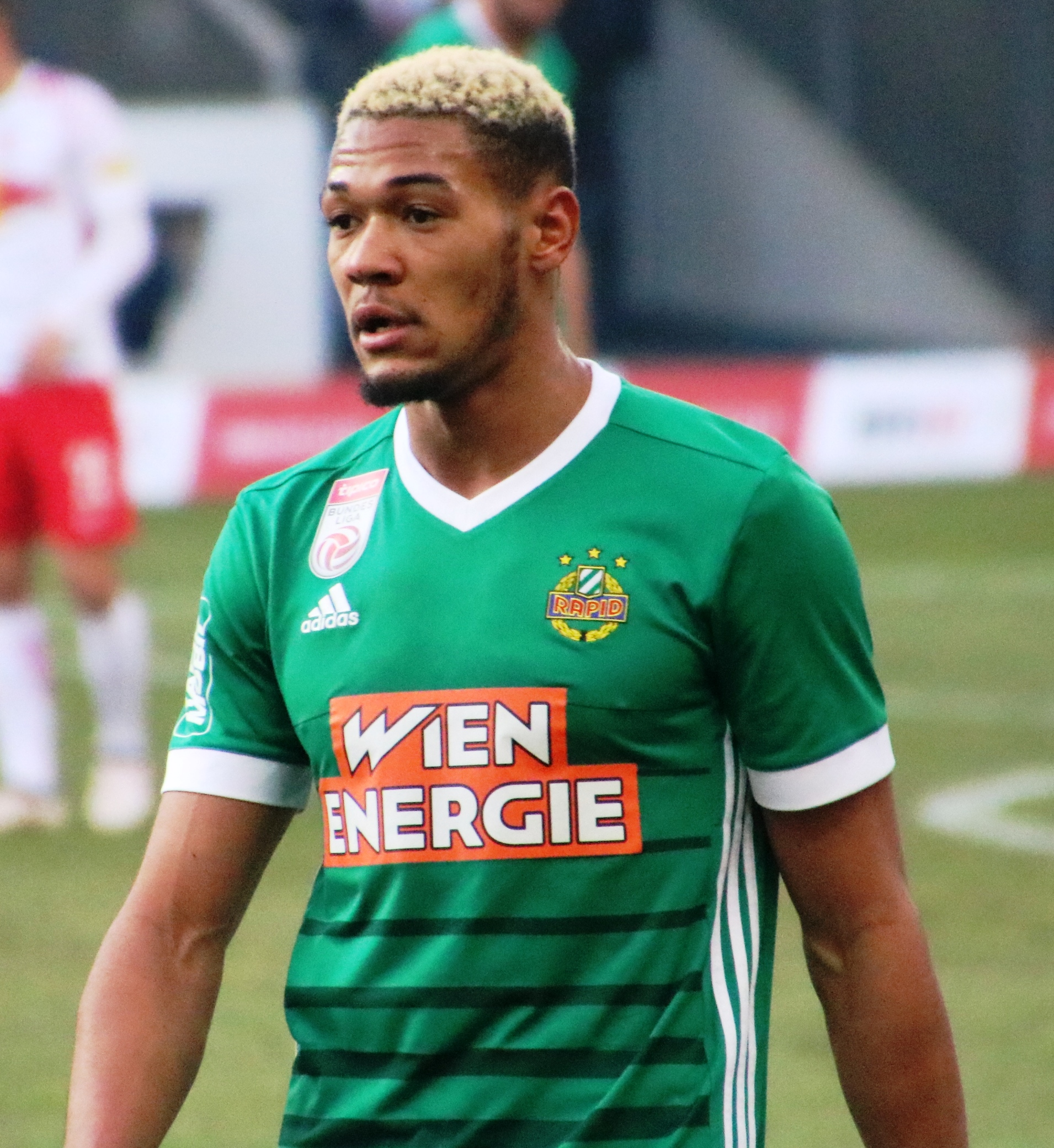 league match Austrian Bundesliga